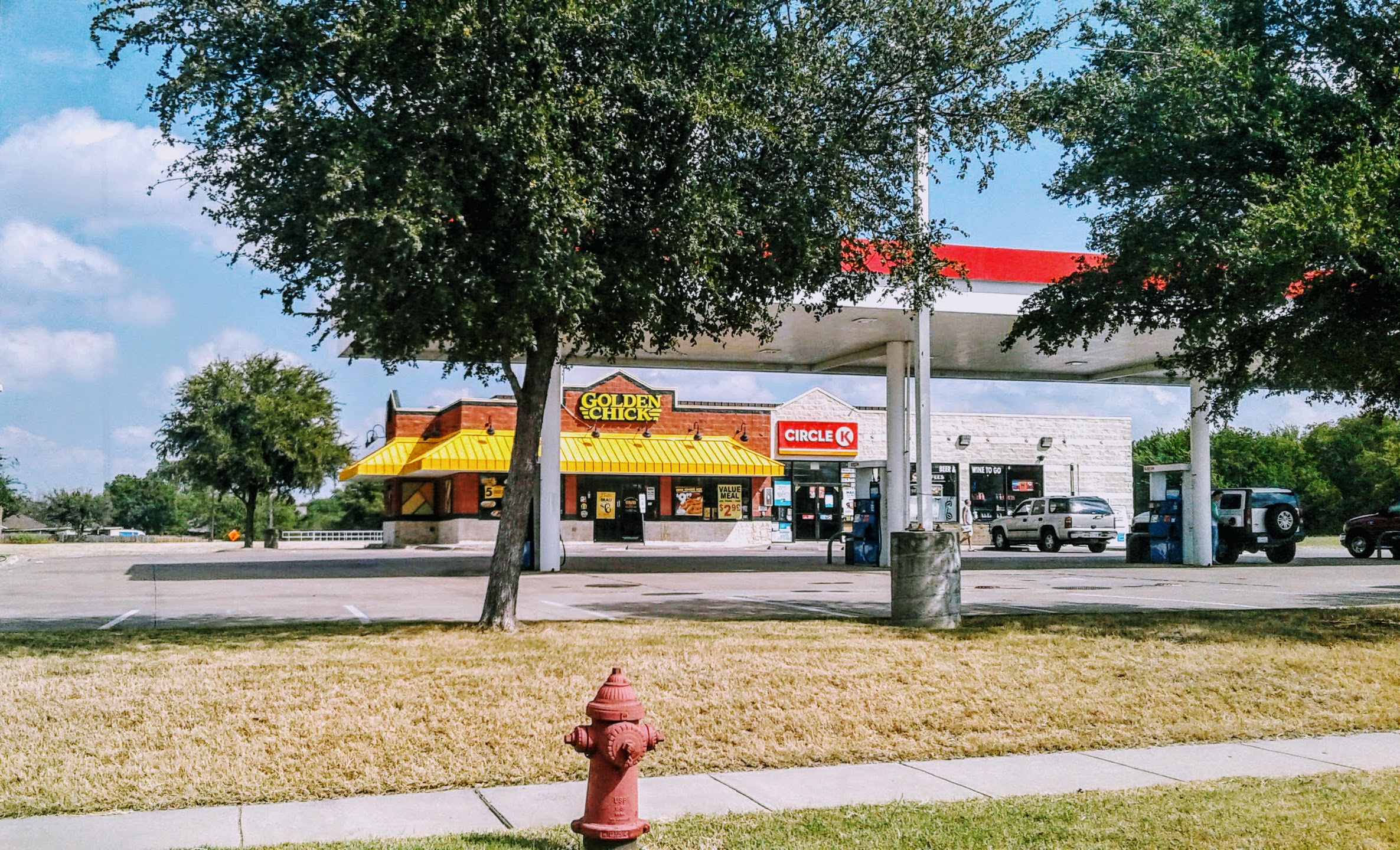 In the photo is an Exxon fuel station and a Circle K convenience store attached with a Golden Chick restaurant. Originally opened as a Shell fuel station in 2000 and became an Exxon in 2013. The convenience store did not convert to a Circle K until early 2017.